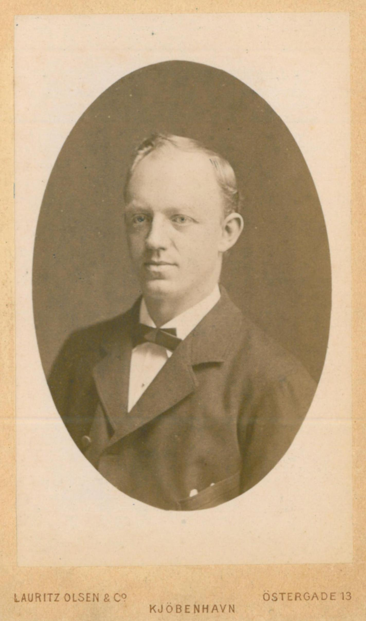 Ólafur Halldórsson (1855-1930)